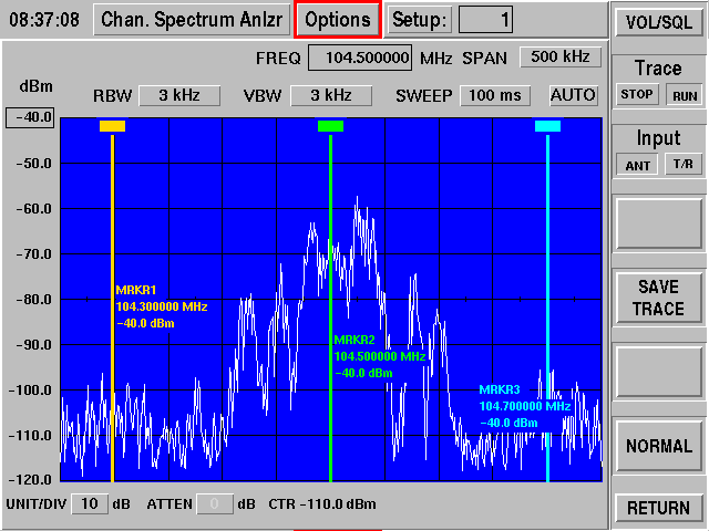 RF spectrum of a broadcast FM radio station broadcasting conventional multiplex stereo signal (no HD Radio subcarriers). Markers show carrier frequency of adjacent channels as well as of the transmitting station.